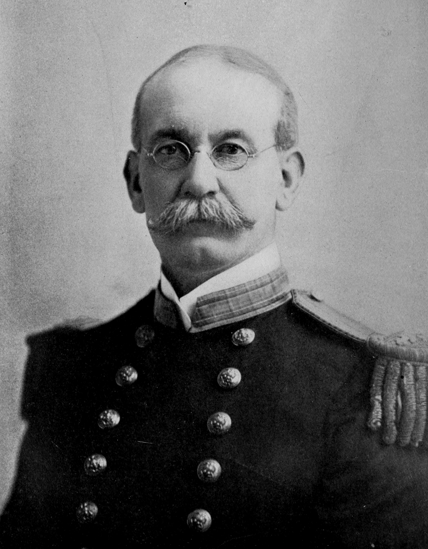 Charles Dwight Sigsbee